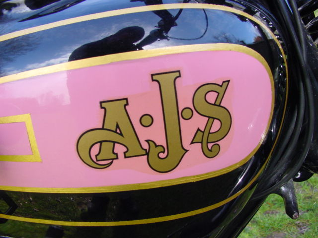 Detail of AJS M6 Motorcycle tank (1929)